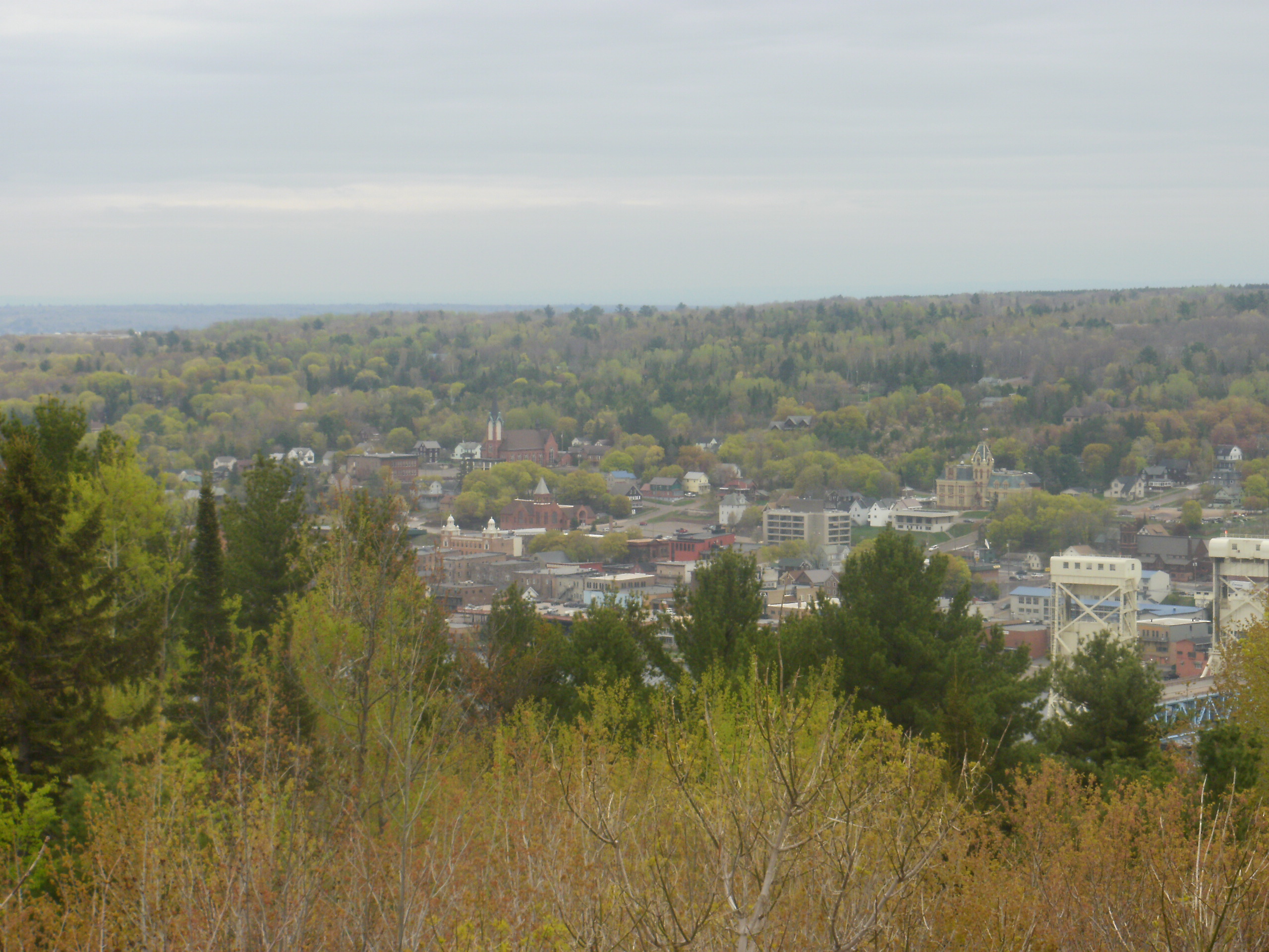 Downtown Houghton, Michigan, as seem from Hancock, Michigan. The Portage Lake Lift Bridge is visible at lower-right.